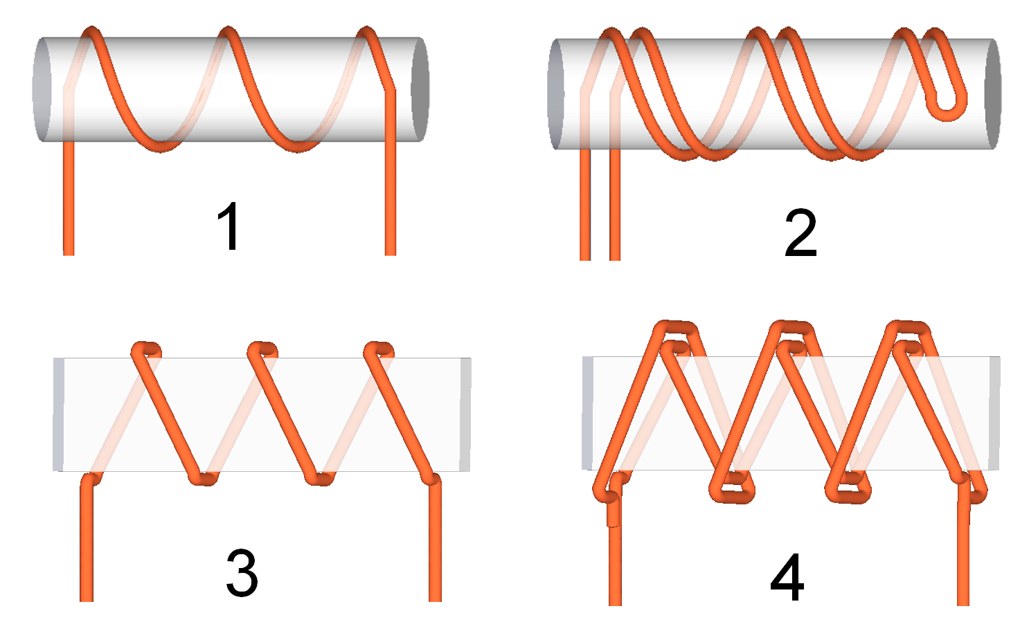 Types of winding used in wire resistors: 1 - simple (inductive), 2 - bifilar (low inductance), 3 - simple on a flat former (inductance reduced due to small cross-section area), 4 - Ayrton-Perry winding on a flat former (the wire is split and wound around the former in opposite directions)